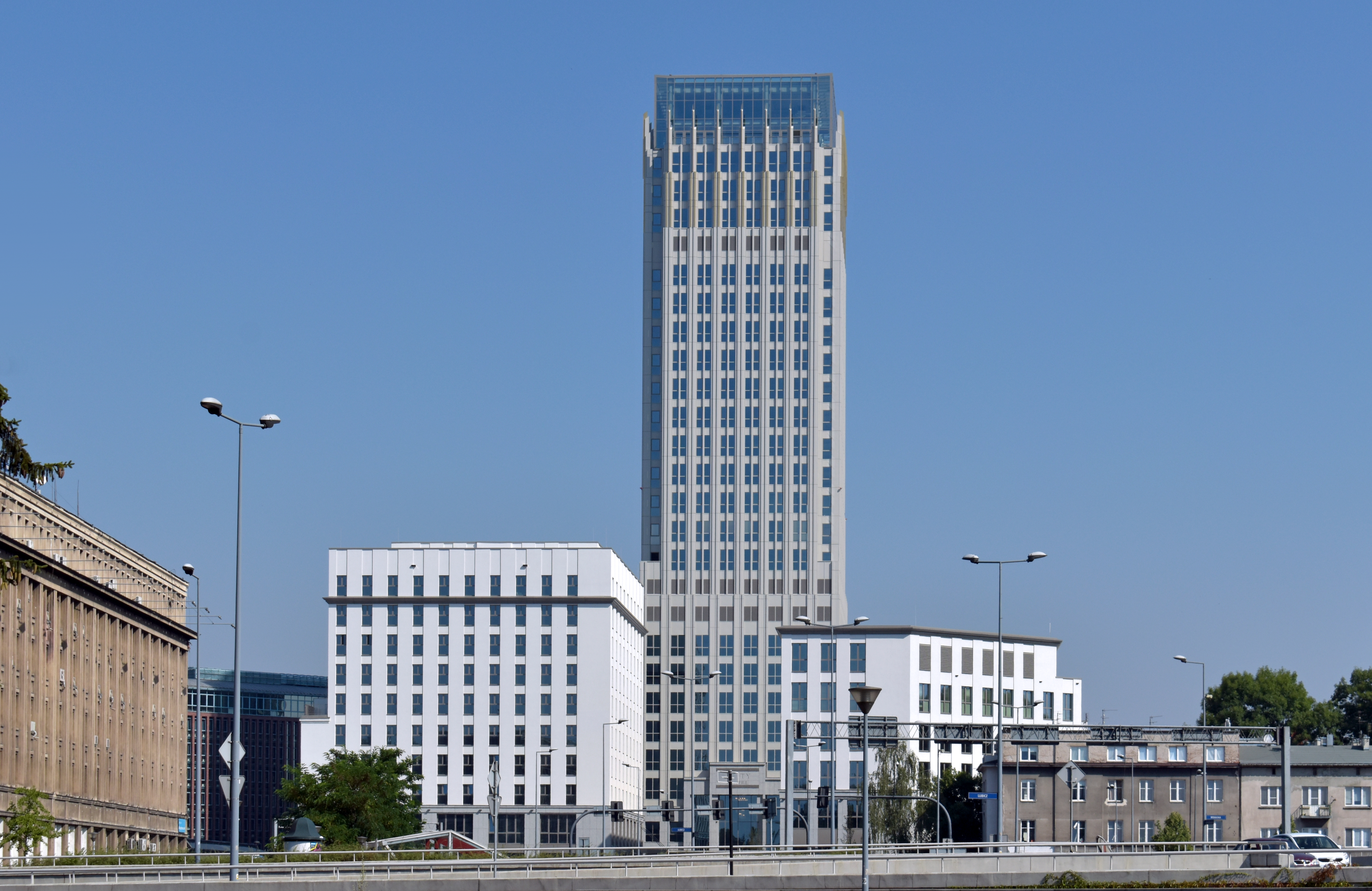 Unity Tower, 2 Lubomirskiego street, Krakow, Poland